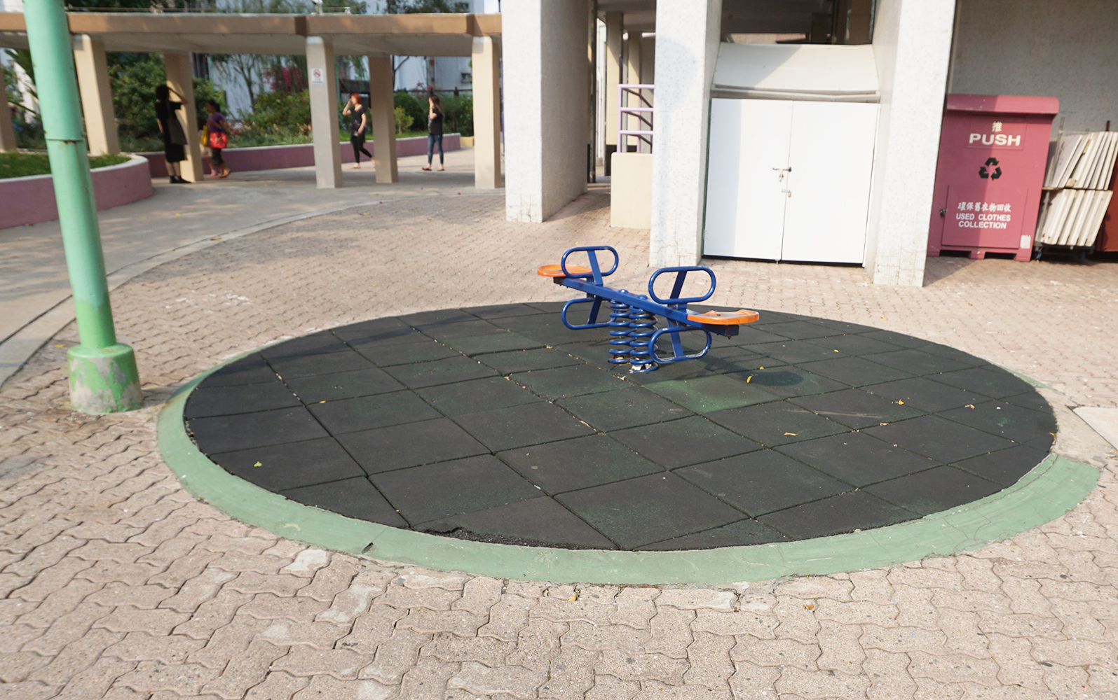 Affluence Garden in Tuen Mun, Hong Kong.